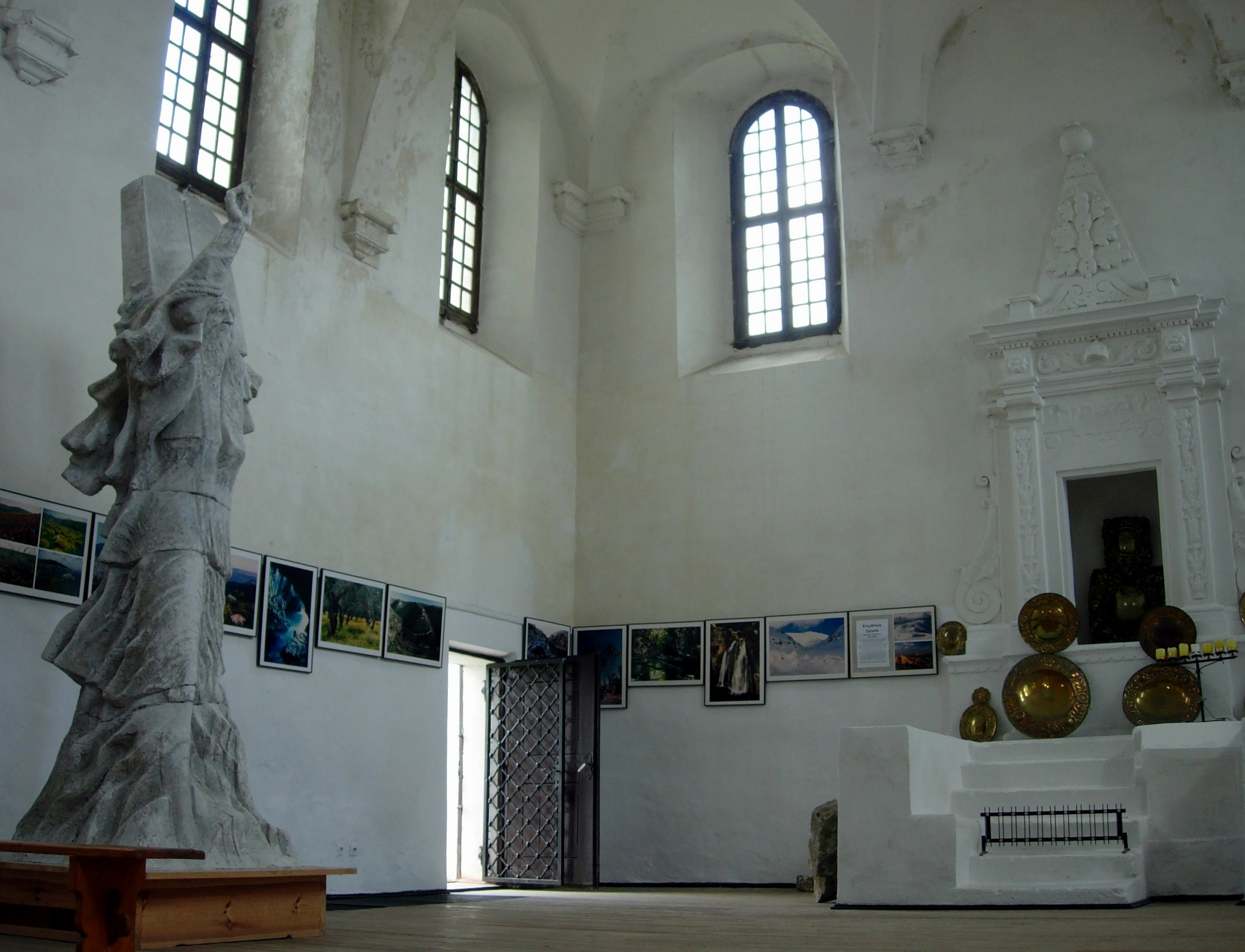 The inside of the synagogue in Szydłów